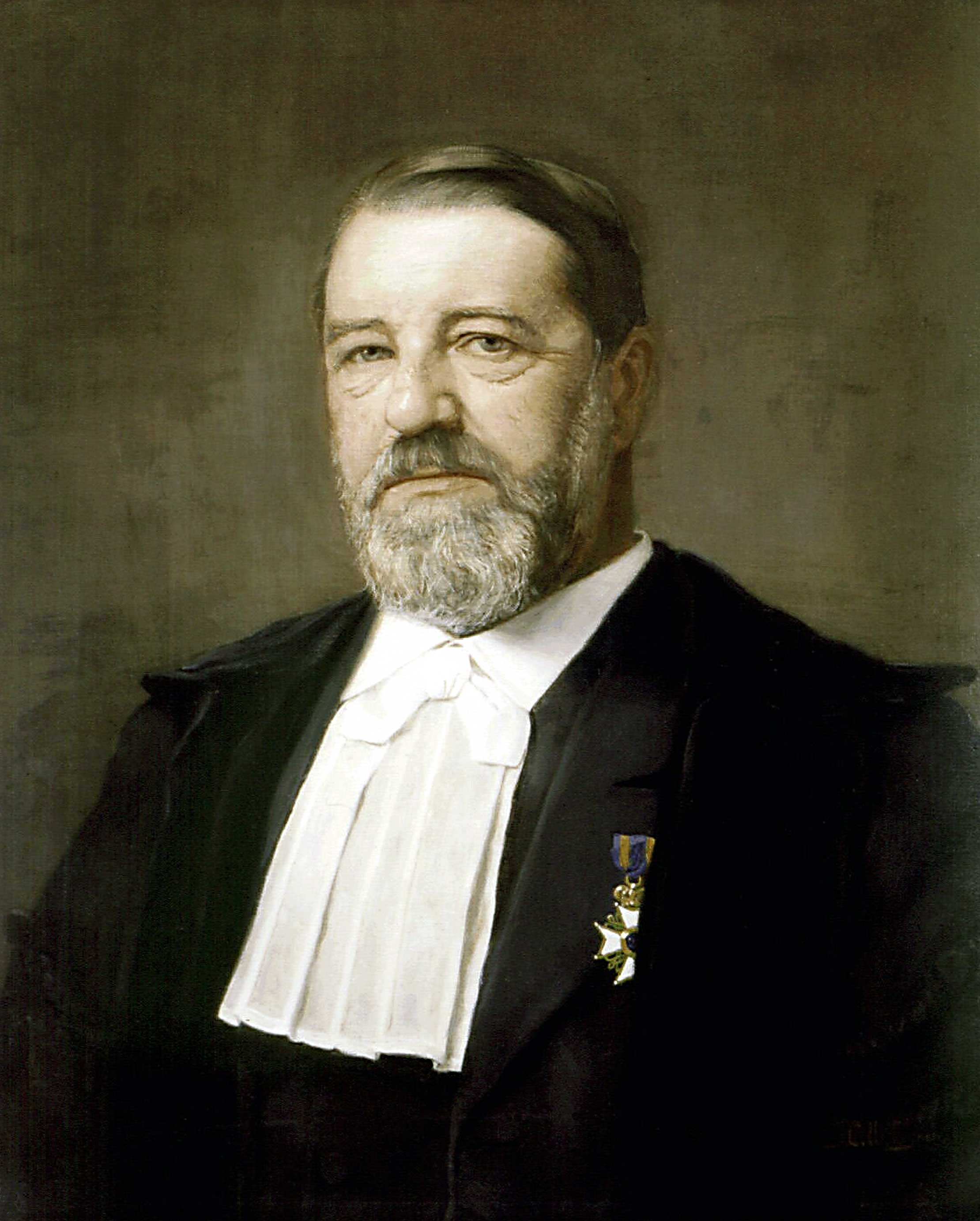 Meinardus Siderius Pols (1831-1897) Dutch Jurist